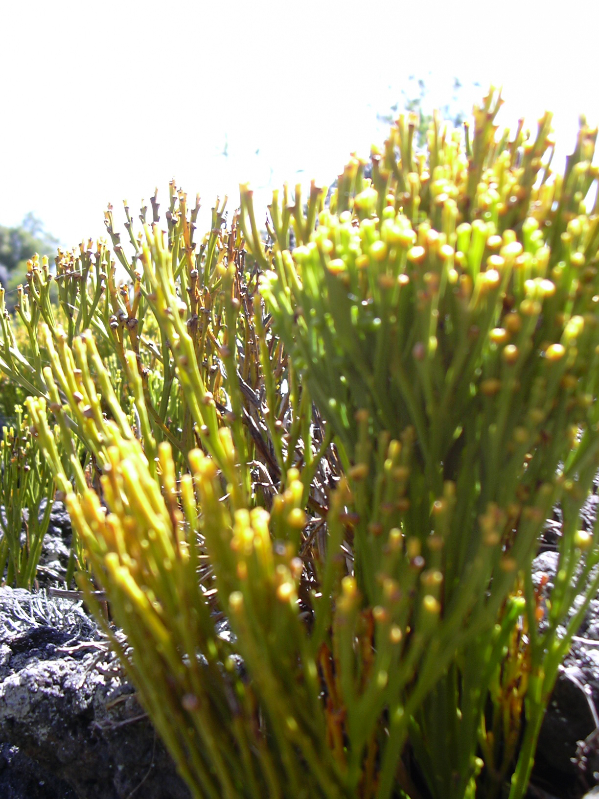 Psilotum nudum (habit). Location: Maui, Auwahi